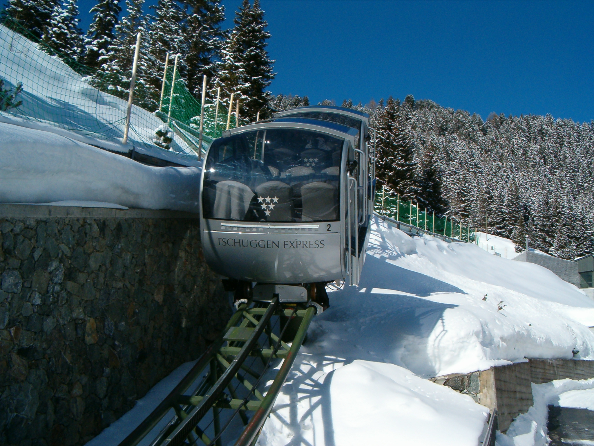 Tschuggen Express at Tschuggen Grand Hotel, Arosa/Switzerland